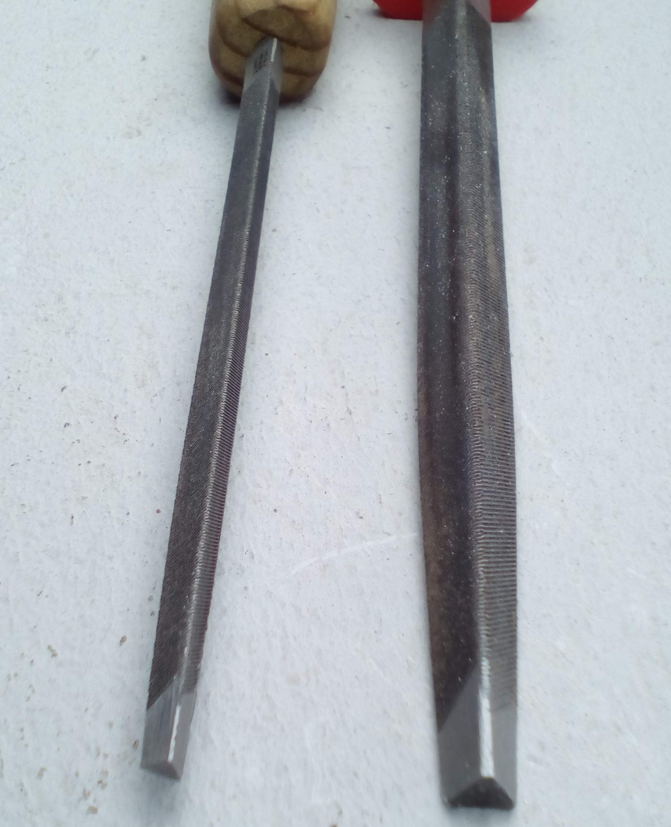 Files to sharpen the teeth of Western hand saws in woodworking. The biggest of the two files is about 10mm in thickness. The ends of the files are slightly tapered